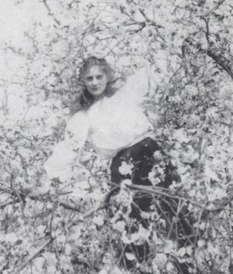 Lory Smits, the creator of eurythmy, in 1906